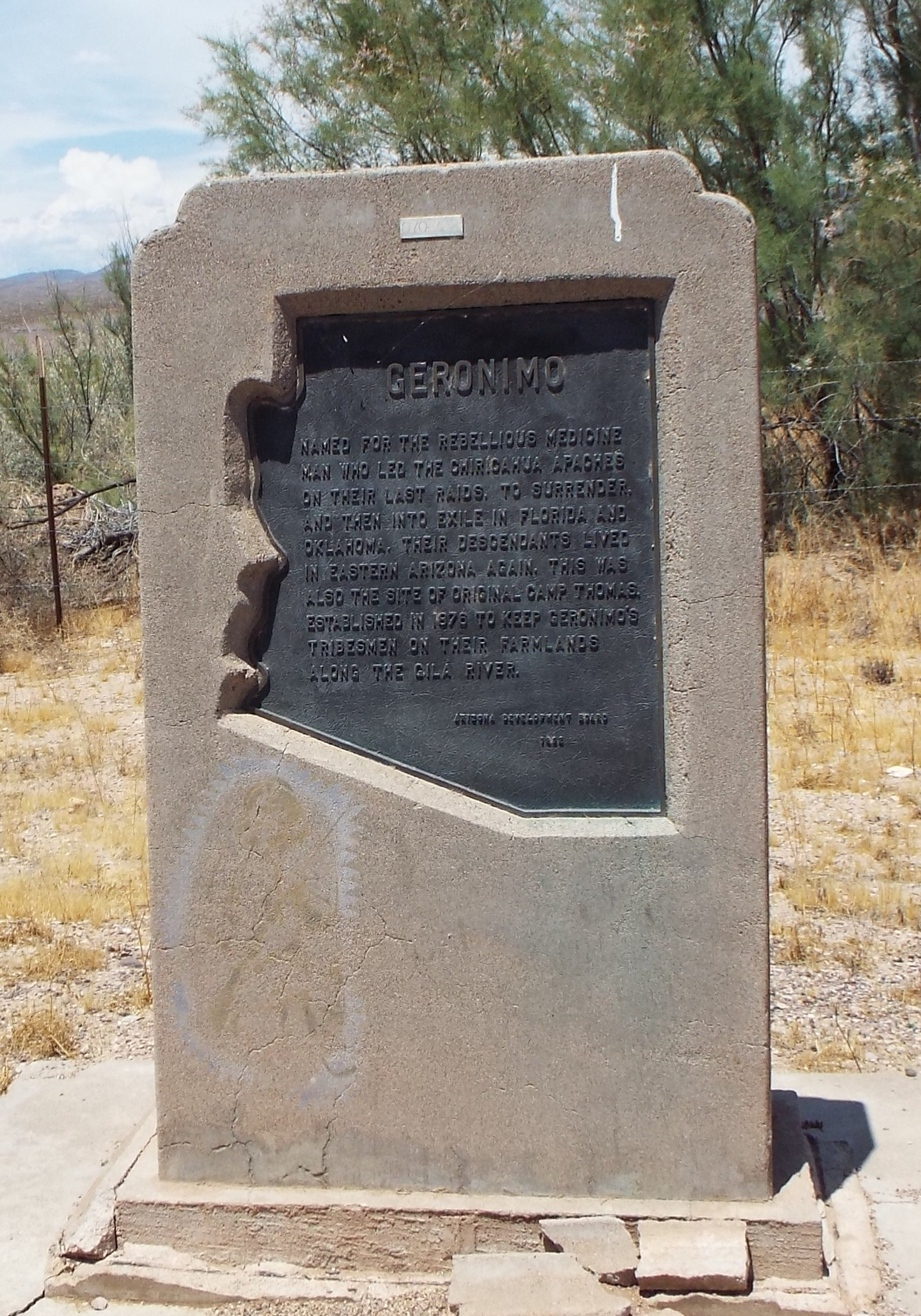 Historical Marker n the town of Geronimo, Arizona